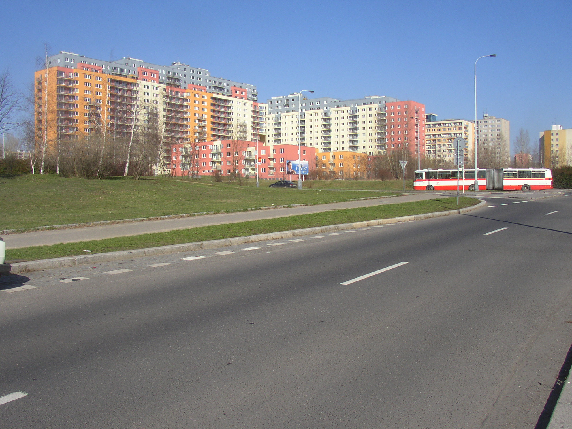 Bohnice housinng estate in Prague, Czech Republic.